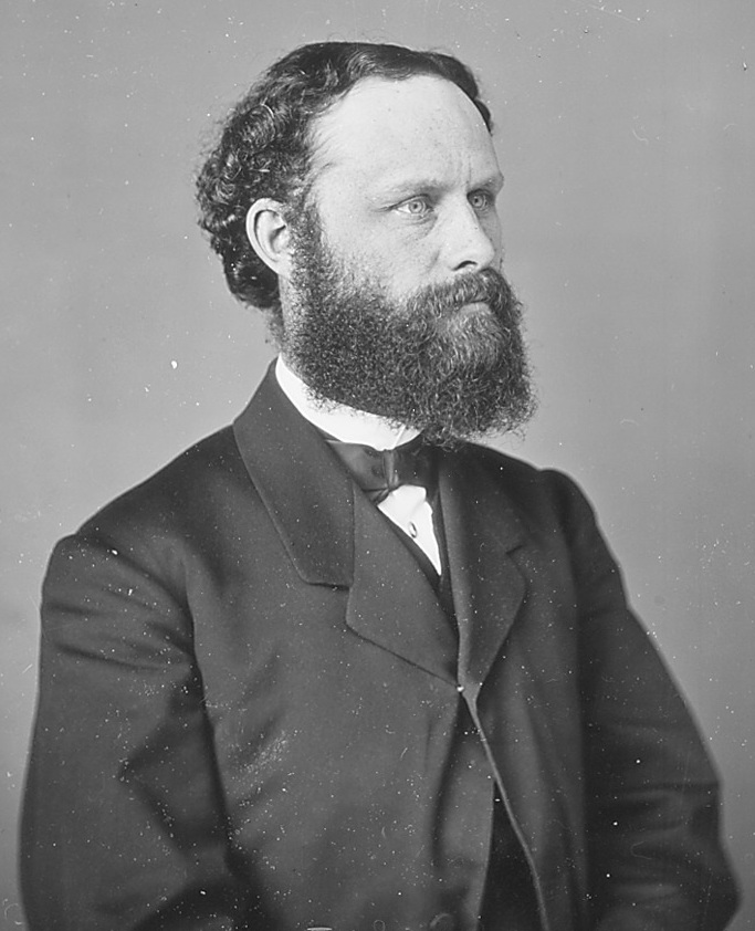 John Winthrop Chanler, Congressman from New York